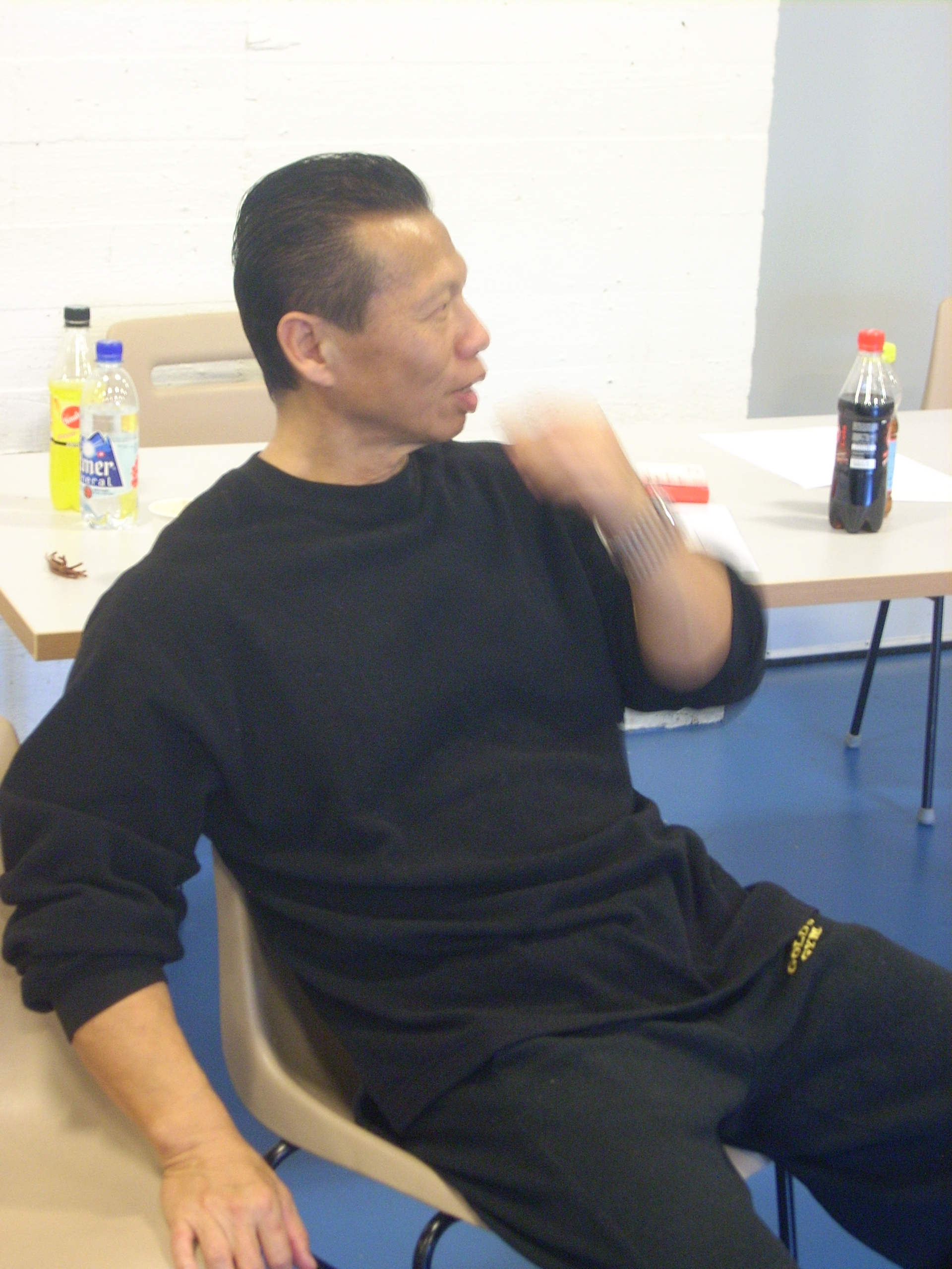 Bolo Yeung in Basel, Switzerland during Budo Gala 2010